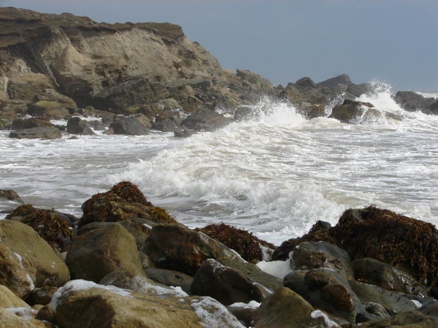 Watershoot Bay. Just west of the St Catherines light - not a hospitable piece of coast for a ship to be washed up on.